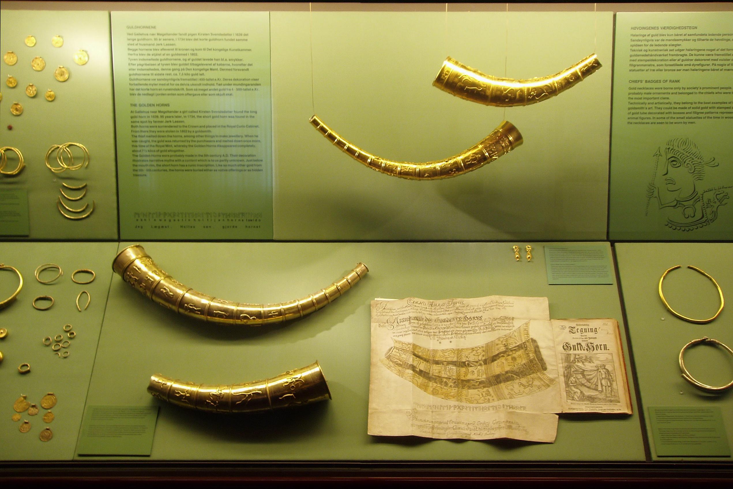 Golden horns of Gallehus in Nationalmuseet in Copenhagen.